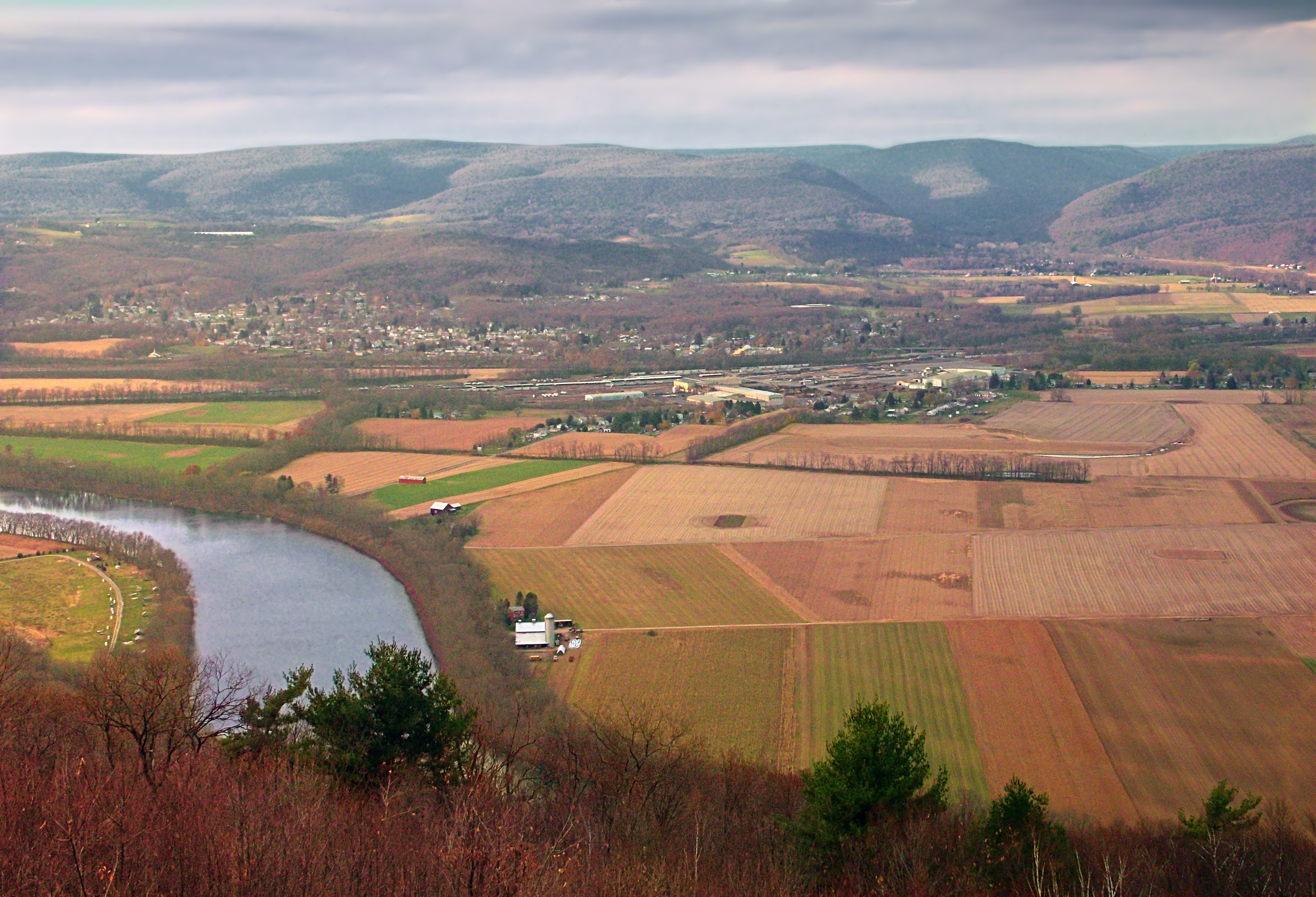 North view of the West Branch Susquehanna River Valley and the Allegheny Front from Bald Eagle Mountain, Tiadaghton State Forest, Clinton and Lycoming Counties.